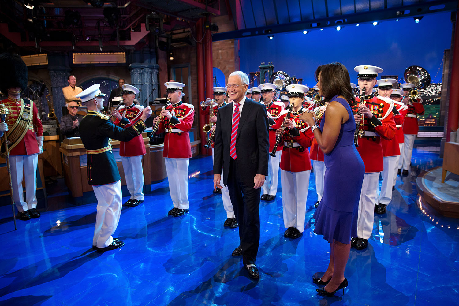 First Lady Michelle Obama surprises David Letterman with a performance by the United States Marine Band for “The Late Show with David Letterman” in New York, N.Y., April 30, 2015. (Official White House Photo by Lawrence Jackson)